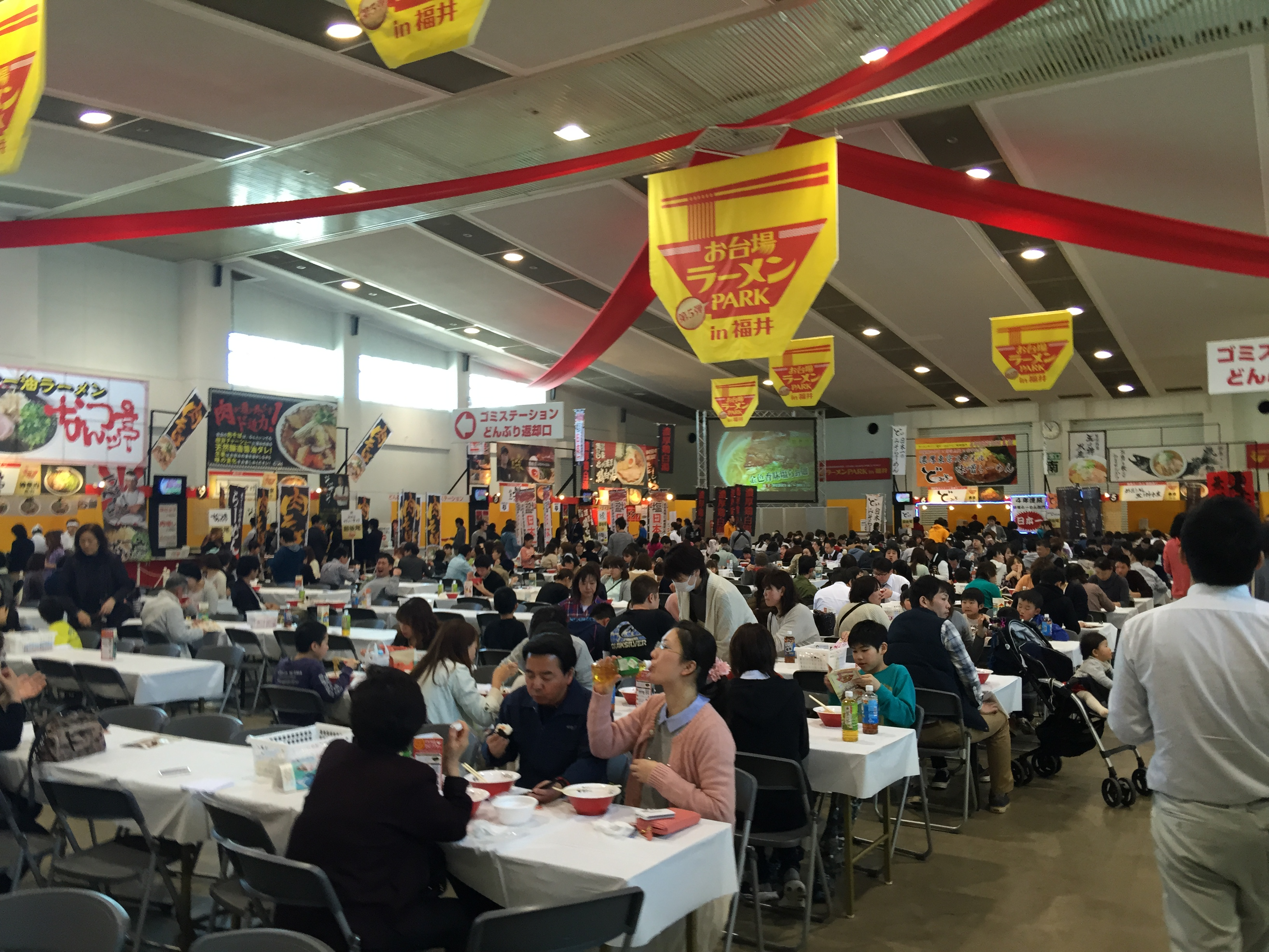 Odaiba ramen park2.